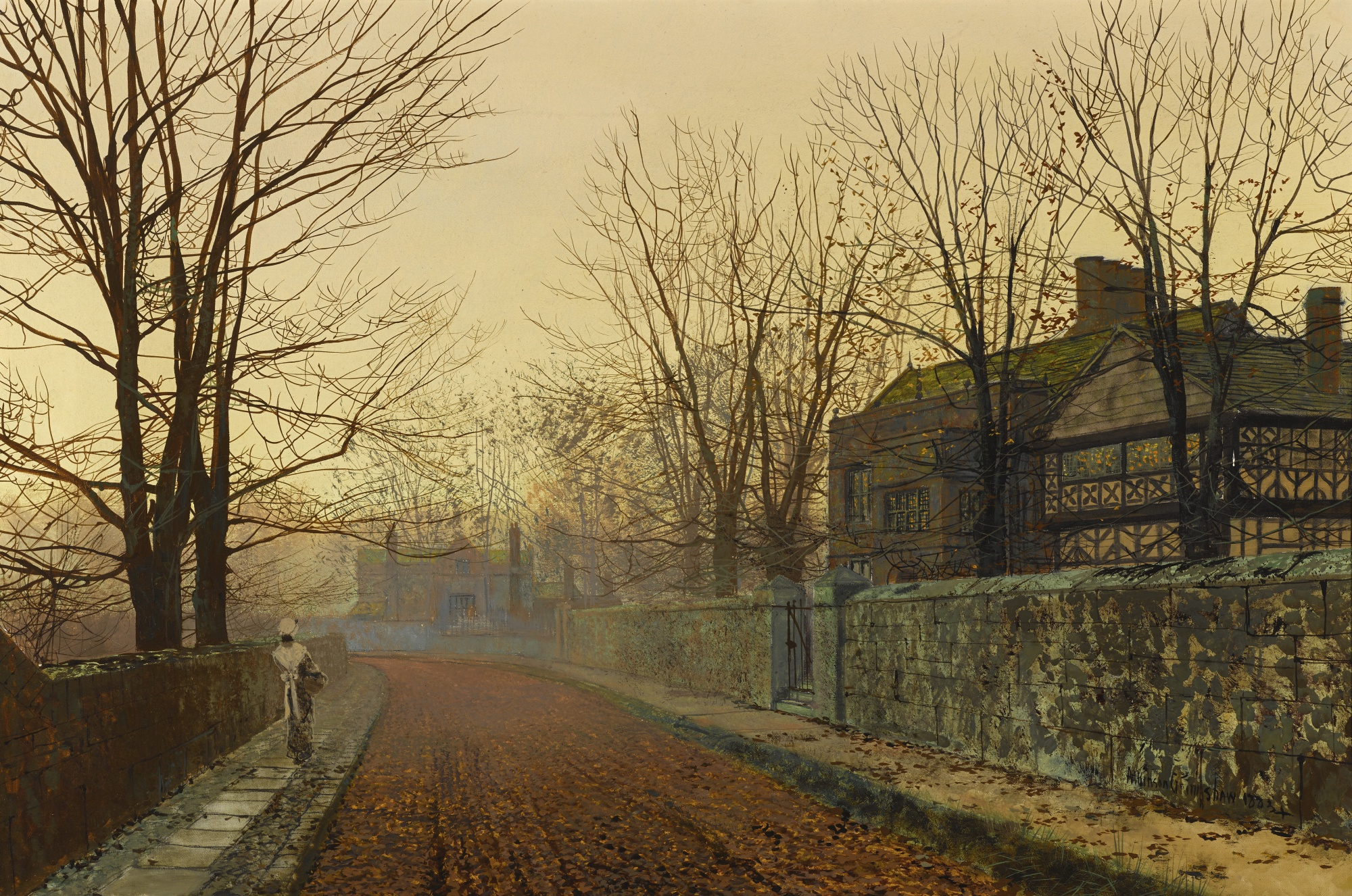 See source: Grimshaw painted at least one other November Morning in 1883 (Shipley Art Gallery, Gateshead) which has a similar composition with a lone housemaid making her way to work with her basket of provisions. Both revel in the glory of a chill autumnal morning where the first glow of the waking sun has burnished the sky with its radiance. A symphony of russets, gold and pale moss greens the painting is a celebration of the colours of the dying year. Mist lingers in the damp air where the road sweeps round to the left.